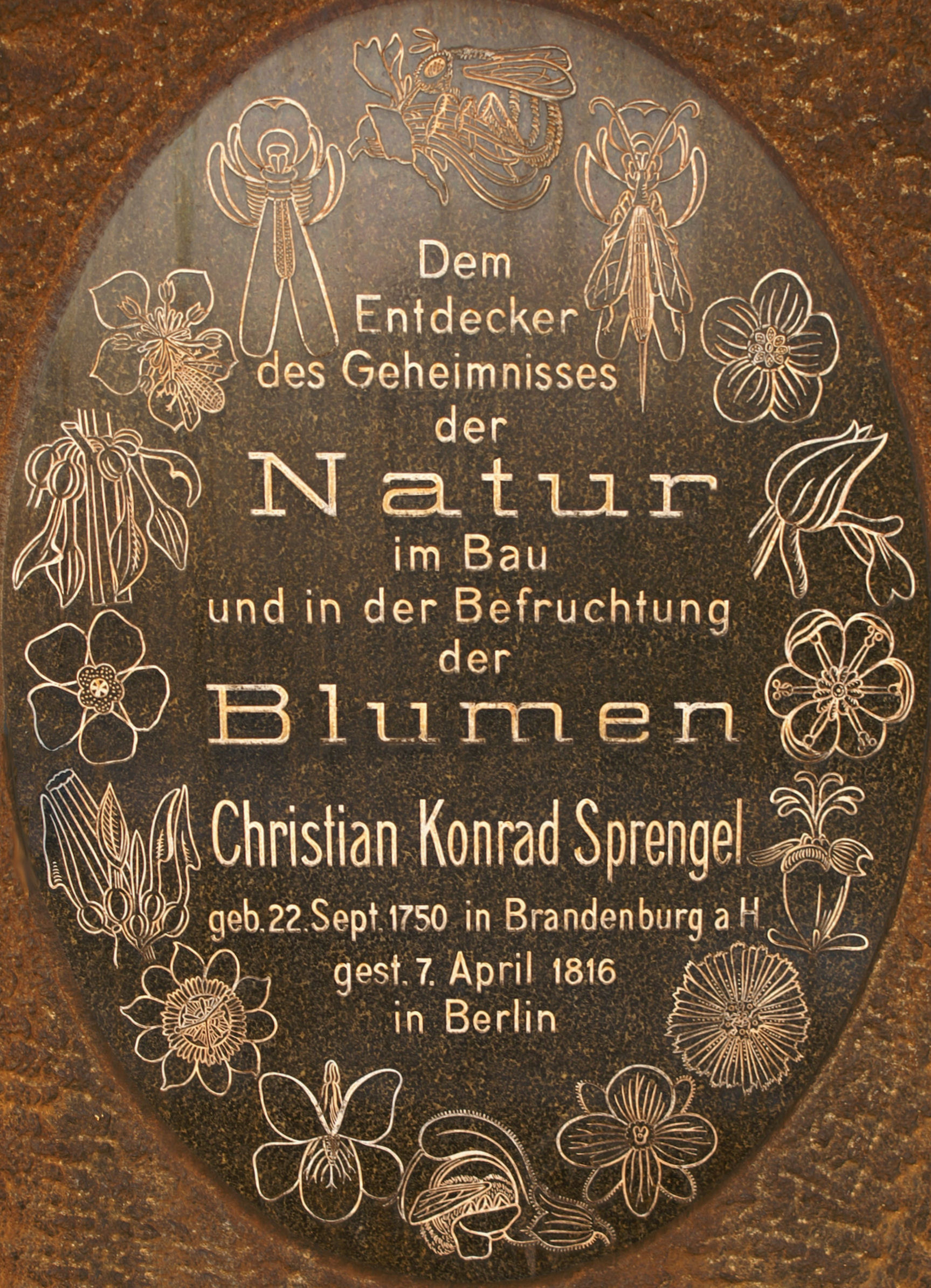 Memorial plaque, Christian Konrad Sprengel, Königin-Luise-Straße 6-8, Berlin-Lichterfelde, Germany Koordinate:52°27′30″N 13°18′15″E / 52.45833°N 13.30417°E